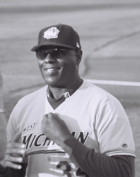 Ray Burris (West Michigan @ Lansing 09052007)